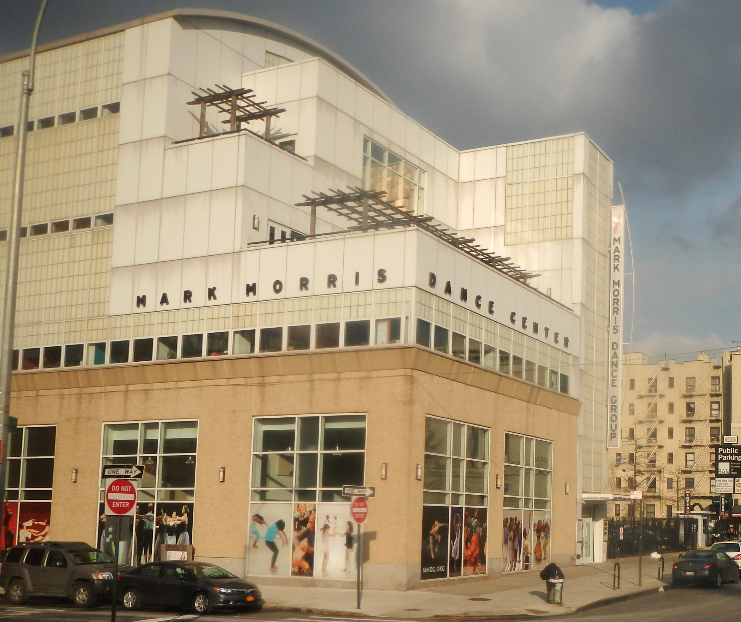 Looking east across Lafayette Avenue on a partly cloudy winter afternoon.